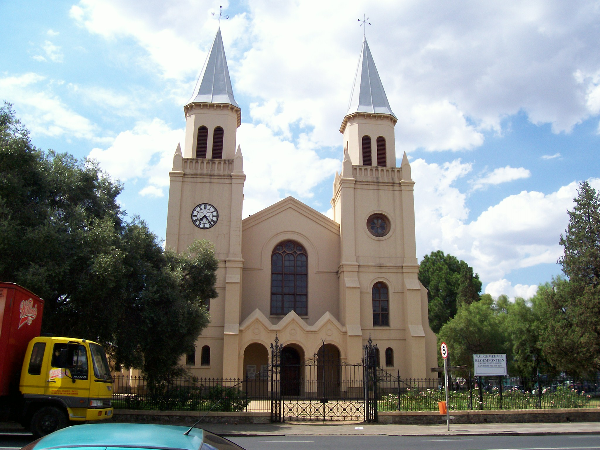 The Two Tower Church is closely connected with the historical past of the Free State. The congregation was established in 1848 and on 6th May, 1849, the Rev. Andrew Murray, Jr., was inducted as the first clergyman.